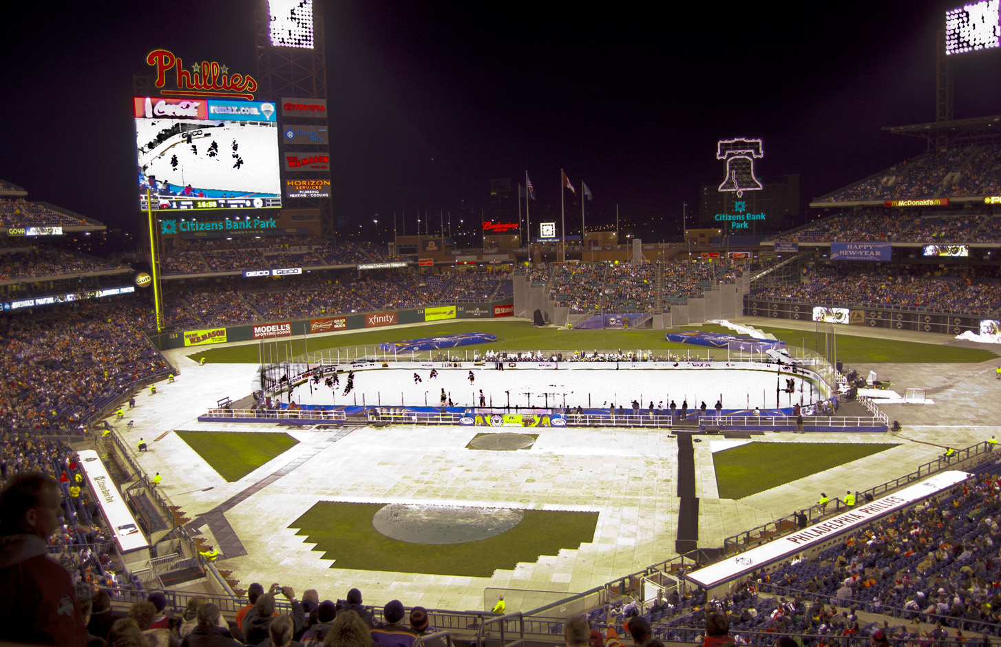 The 2012 AHL Winter Classic played between the Adirondack Phantoms and Hershey Bears played at Citizens Bank Park, Philadelphia, PA, on January 6, 2012. (Photograph by uploader)